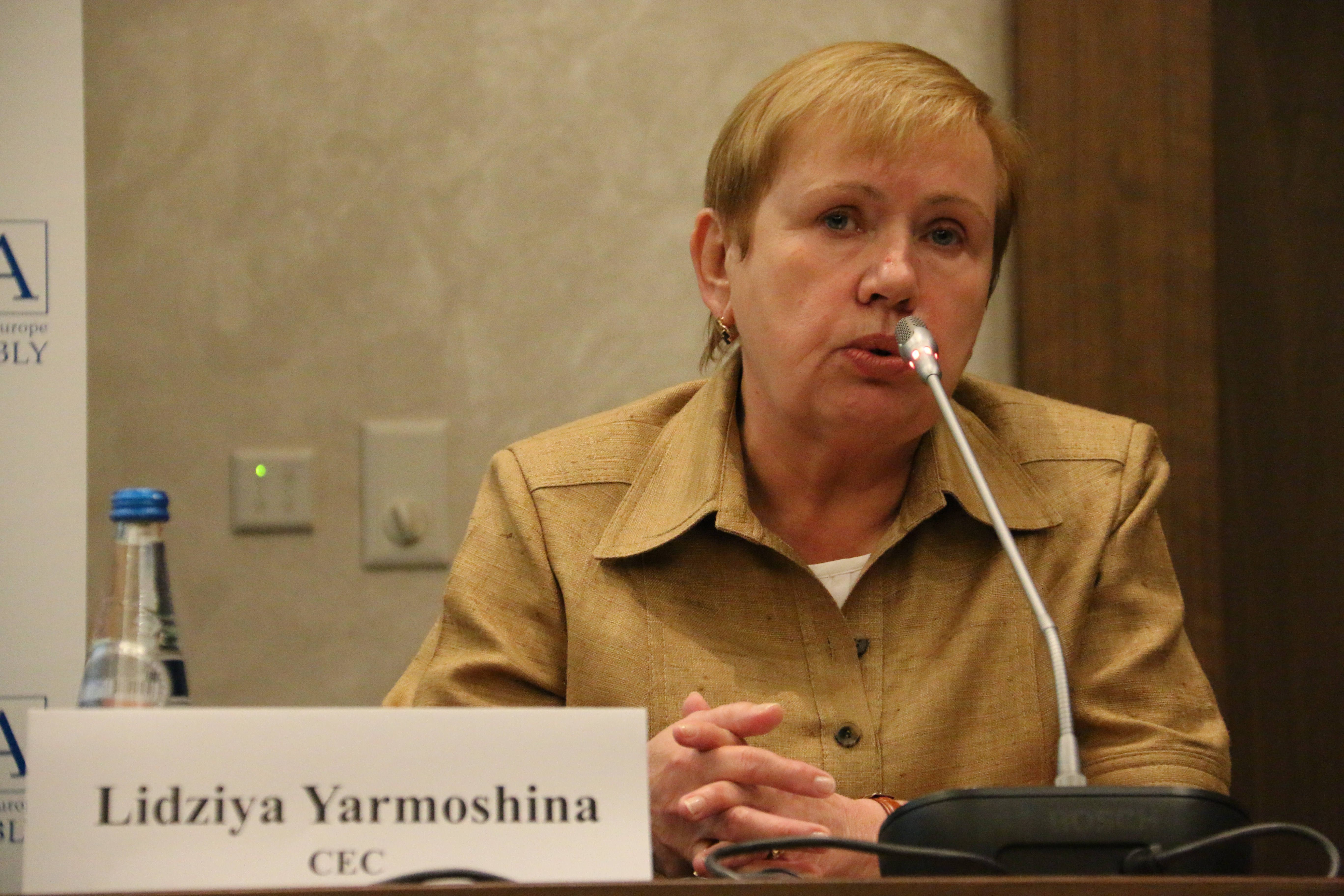 CEC Chairwoman Lidia Yermoshina addresses parliamentary observers, Minsk, 9 September 2016